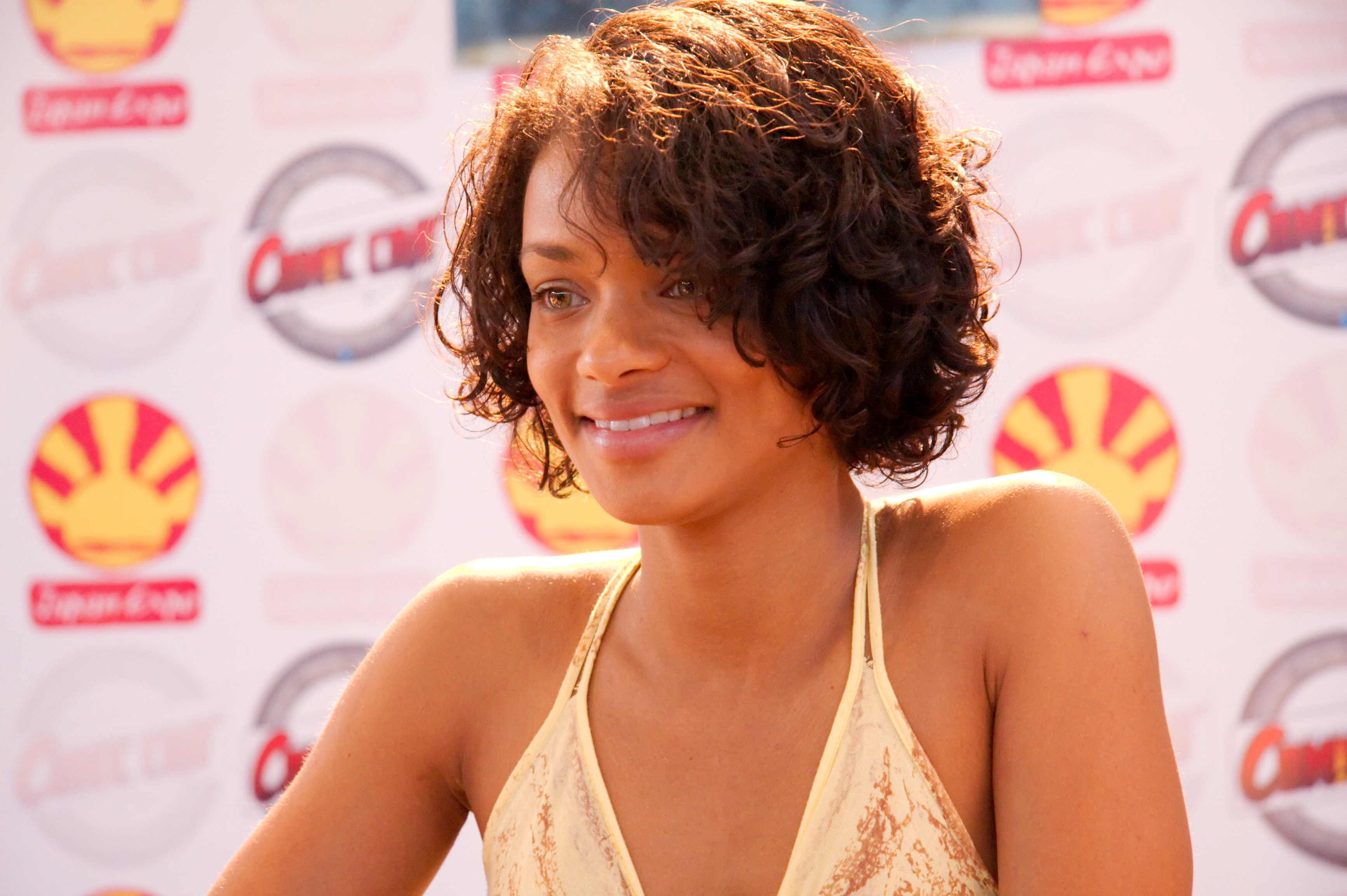 Autograph session with Kandyse McClure at Japan Expo 2009 (Paris, France).